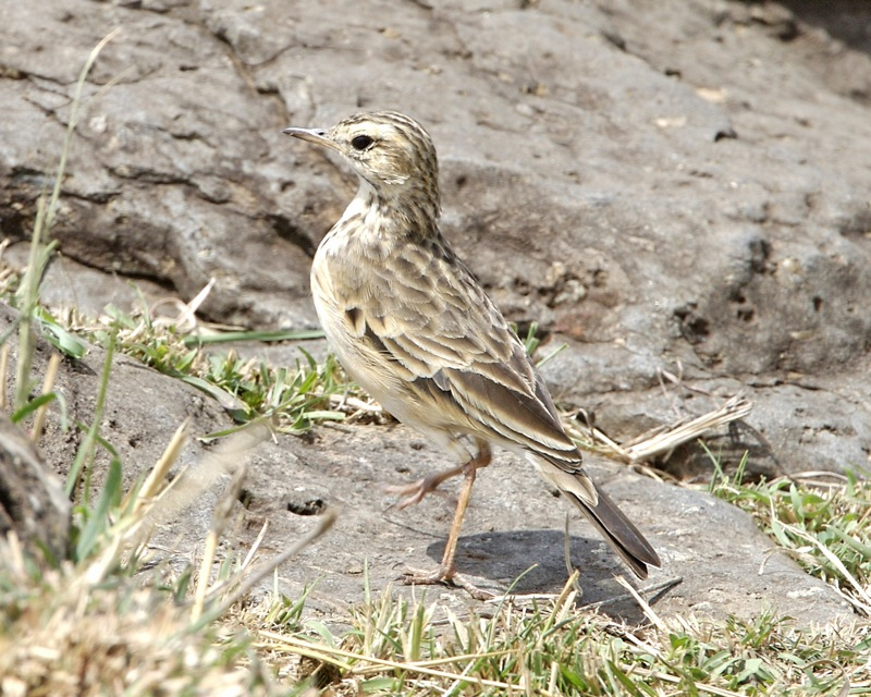 African pipit near Olkiombo Airstrip, Masai Mara, southern Kenya, on August 29, 2008, 690V1515 Kiswahili: Kipimanjia-mbuga, Masai Mara